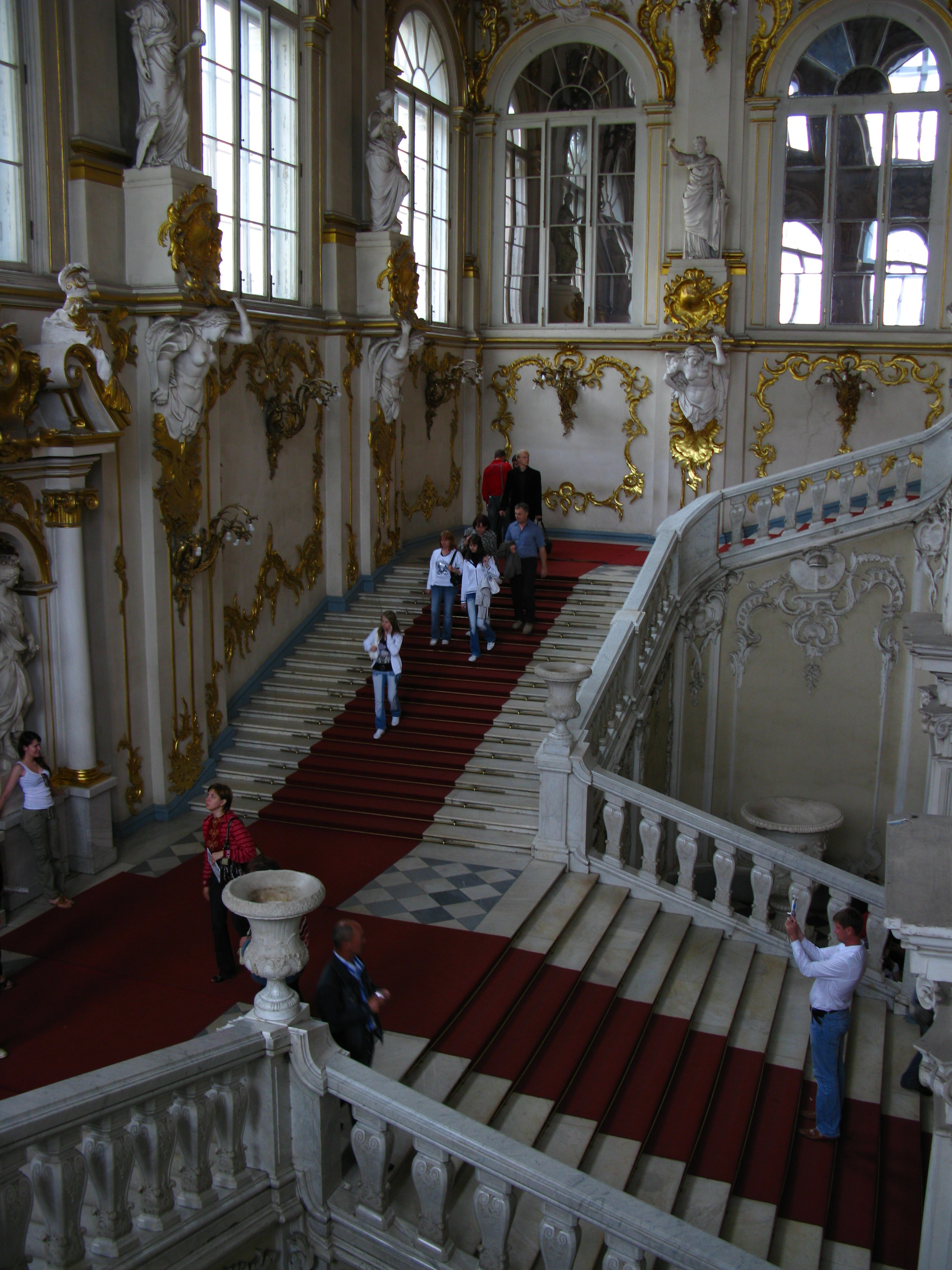 The Jordan Staircase of the Winter Palace